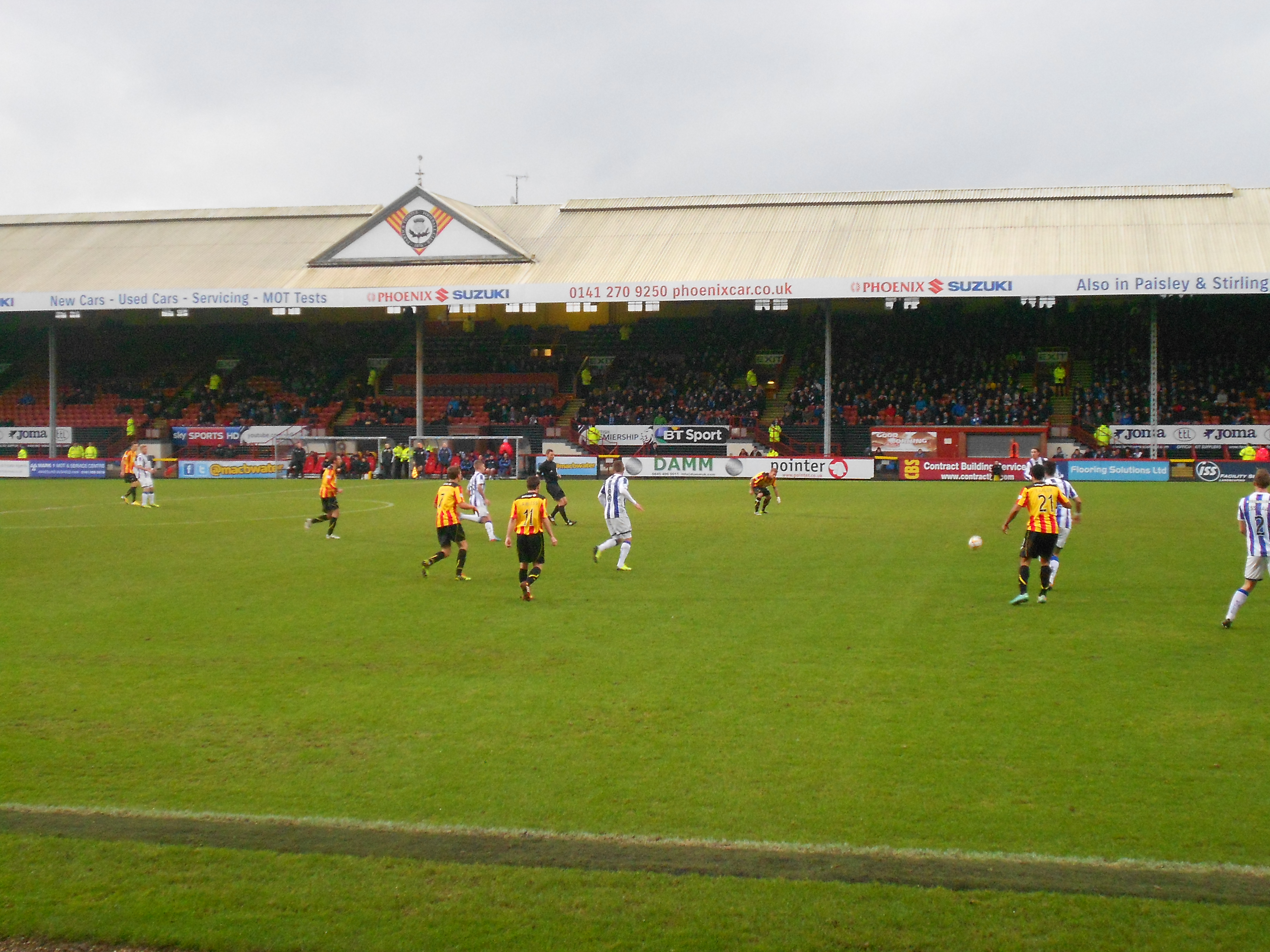 Thistle play Kilmarnock at Firhill.